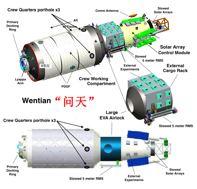 Chinese Space Station supplemental module Wentian